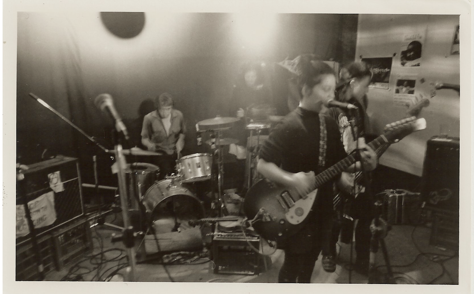 Sea Haggs, 1994 Empress Hotel